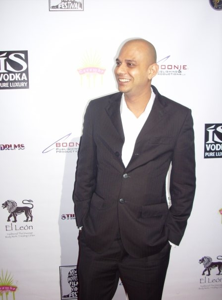 Hollywood Red Carpet, Short film Shunyata